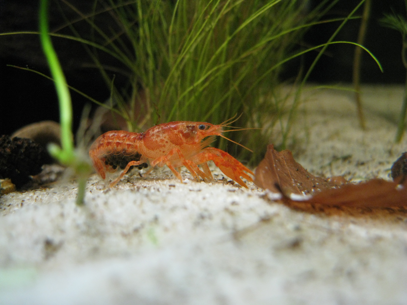 Female specimen of an orange-coloured mutation of Mexican dwarf crayfish, Cambarellus patzcuaensis var. "Orange", carrying eggs